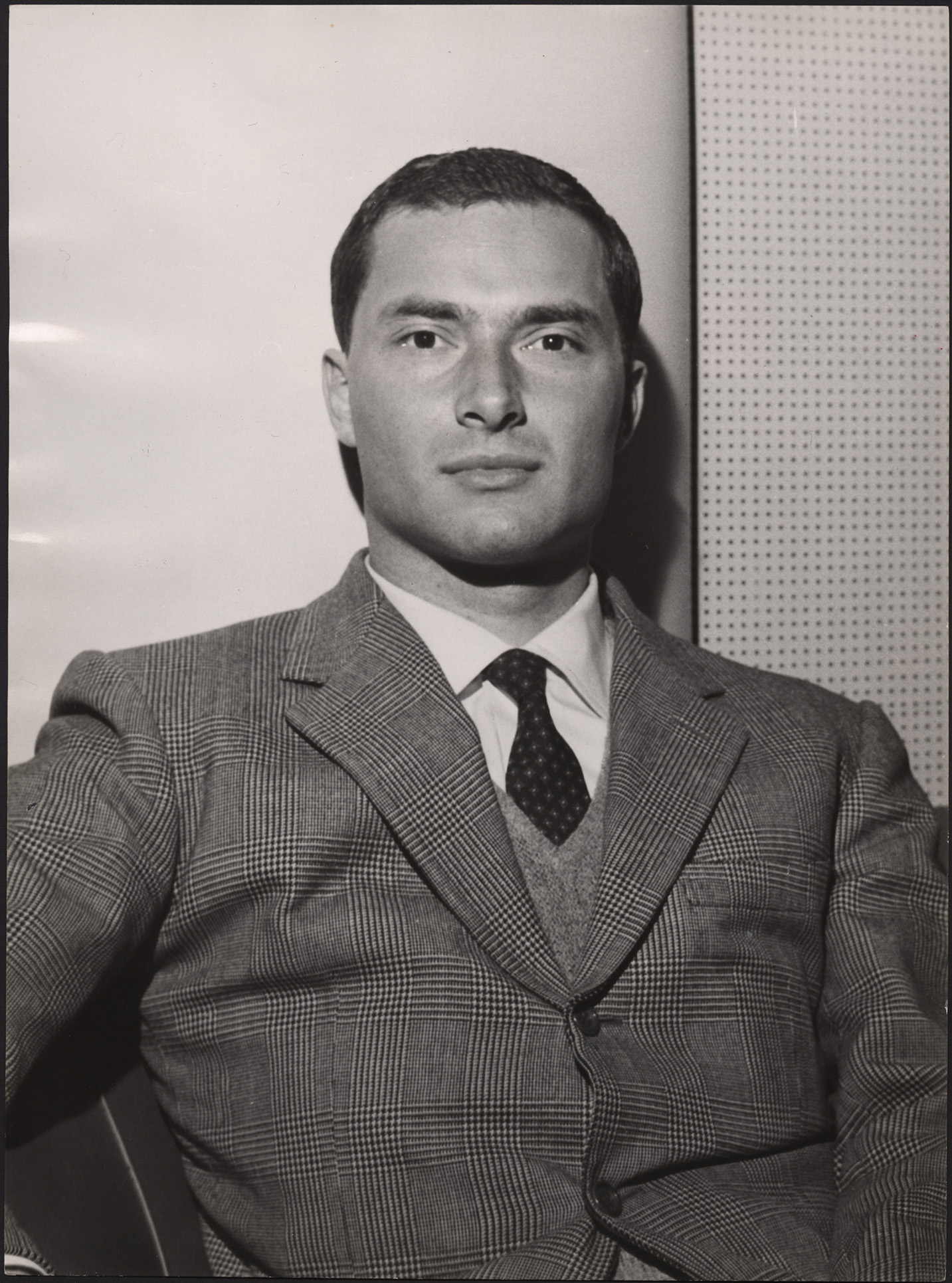 Portrait of Nanni Ricordi, music executive (1932-2012). Photo by Roto, Milano, before 2012.